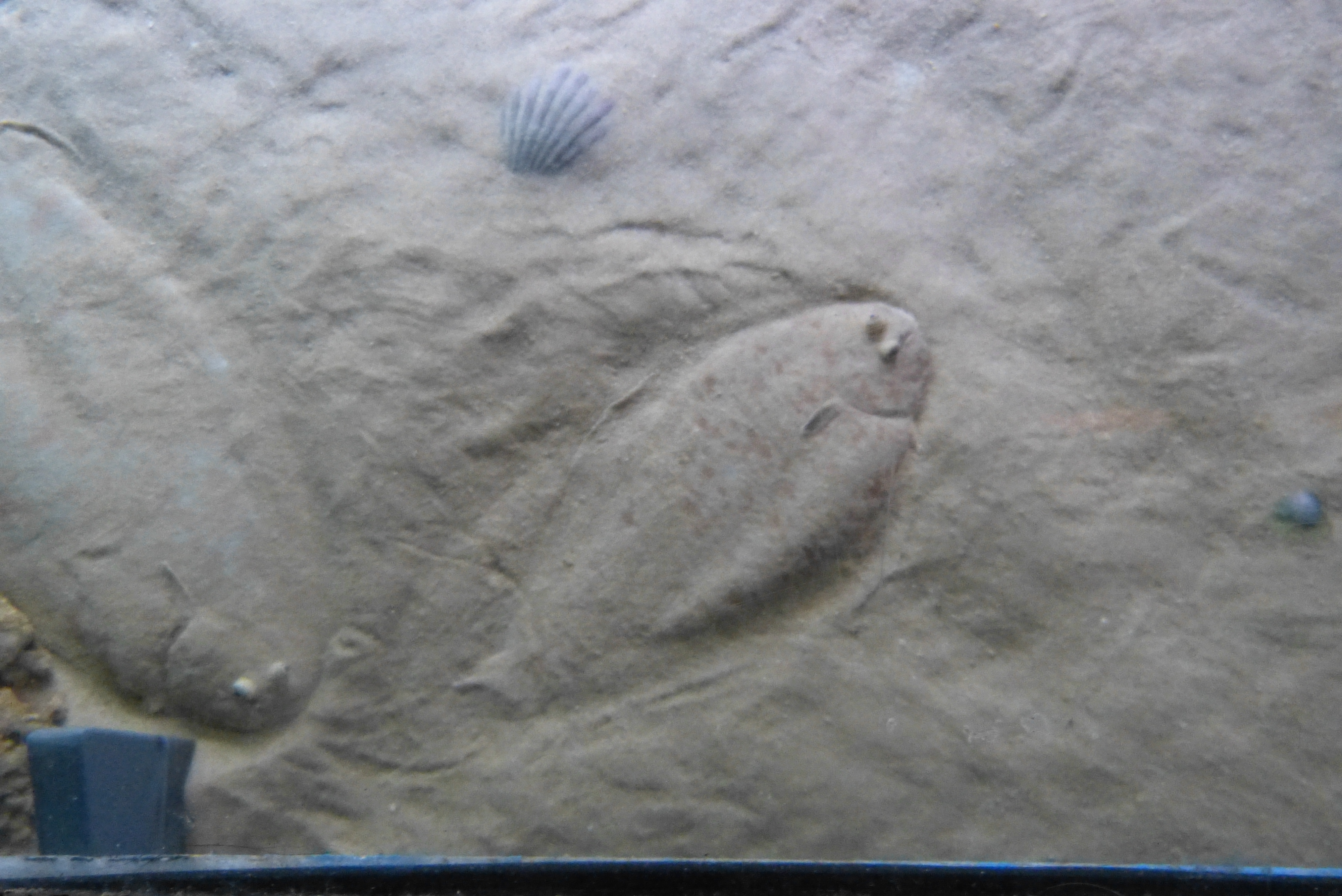 Flatfish from the family Soleidae (true soles) camouflaged in the sand at Oceanário de Lisboa